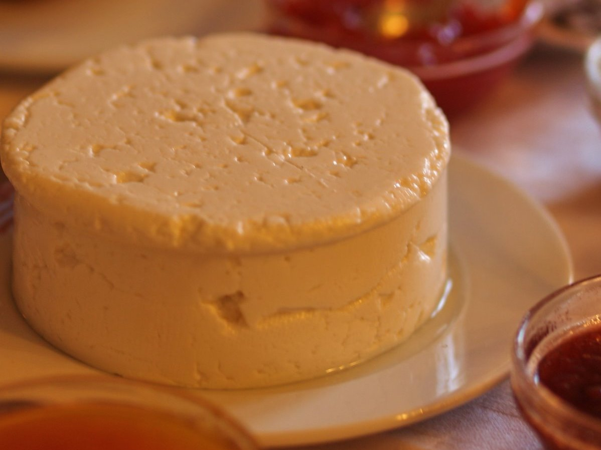 Queijo Rabaçal, a portuguese cheese.